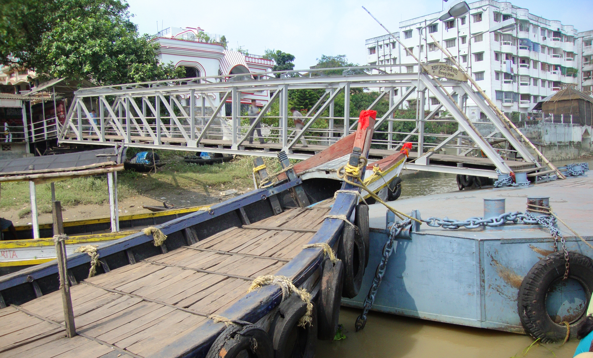 The ferry ghat at Srirampur used for public transportation as well as transportation of goods between Srirampur and Barrackpore.